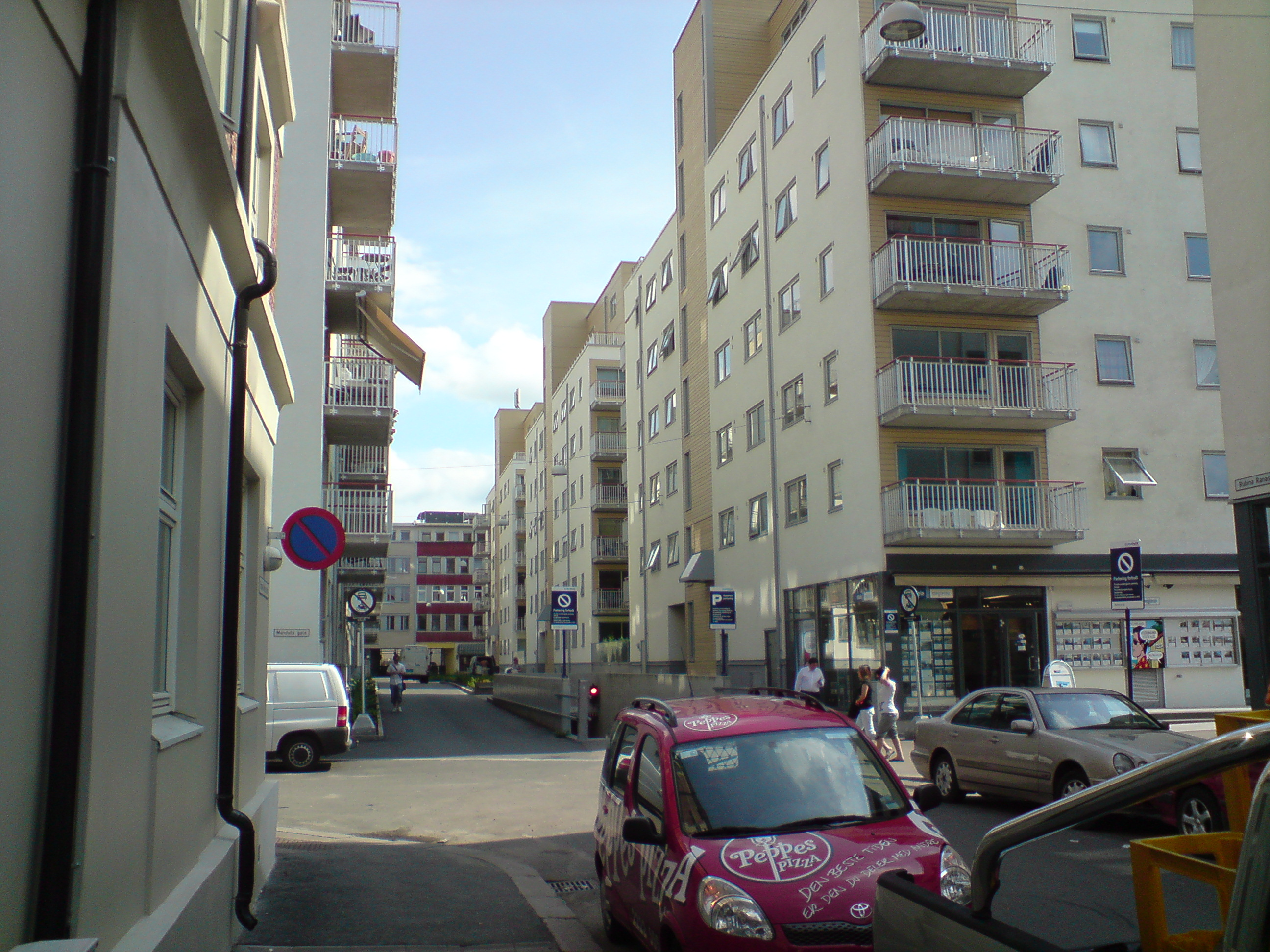 Rubina Ranes gate ihn Oslo